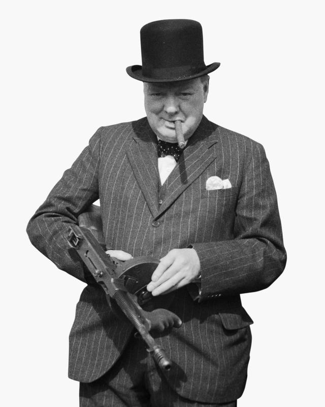 Winston Churchill As Prime Minister 1940-1945 The Prime Minister Winston Churchill inspects a 'Tommy gun' while visiting coastal defence postions near Hartlepool on 31 July 1940.